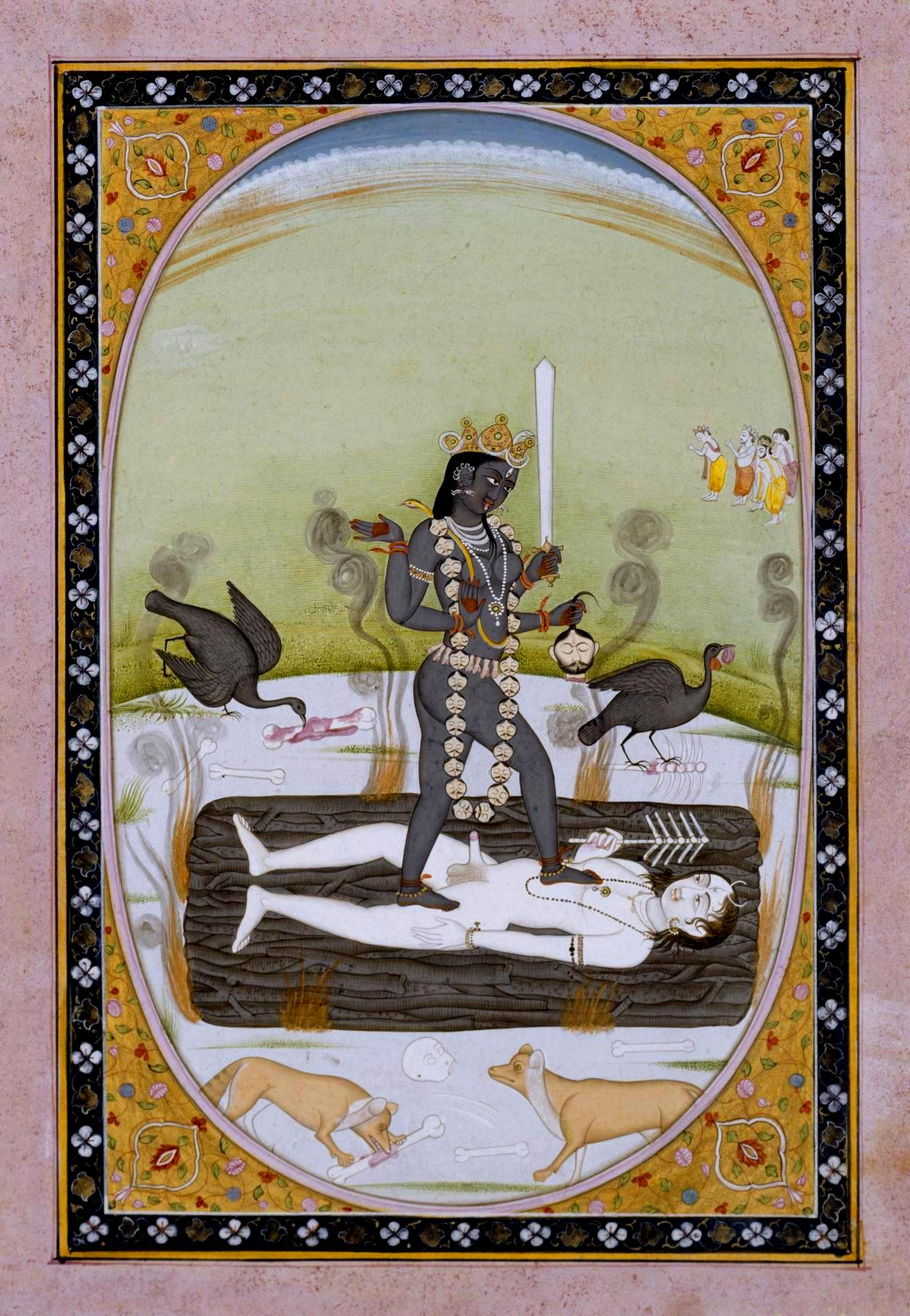 Kali_1800-1825_Miniature. Kangra._The_Walters_Art_Museum